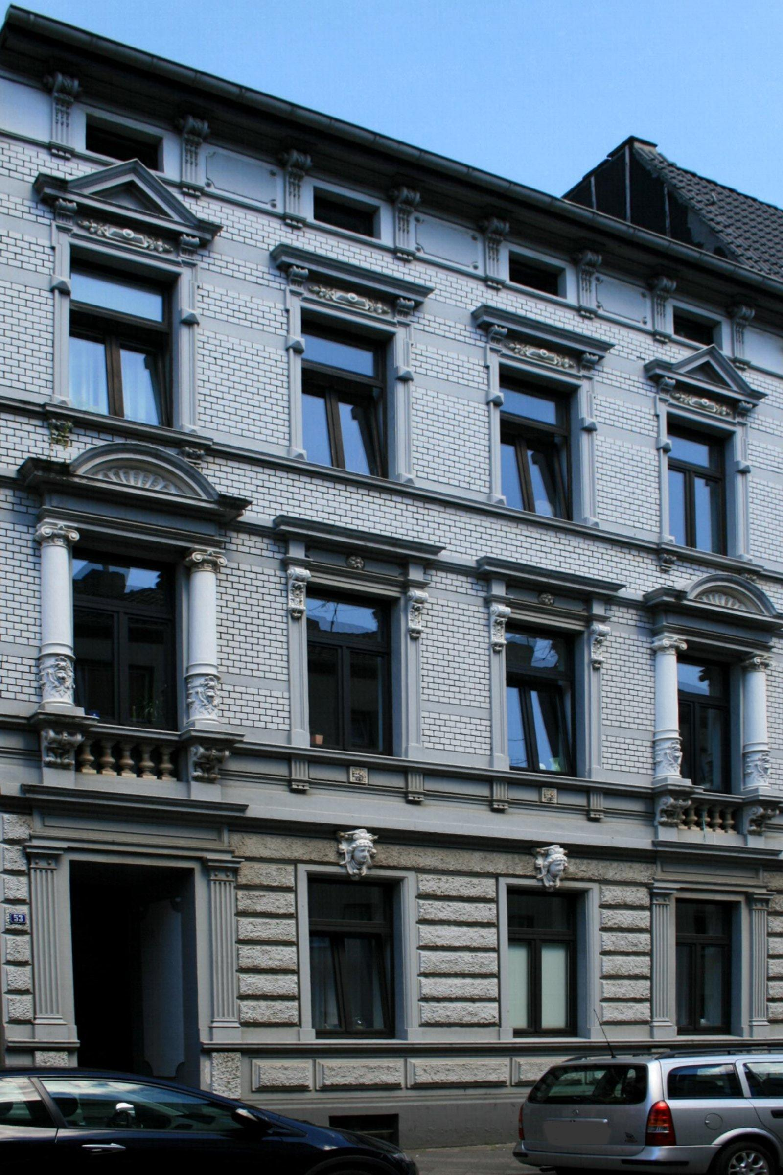 Cultural heritage monument No. M 016 in Mönchengladbach